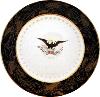 Benjamin Harrison White House china